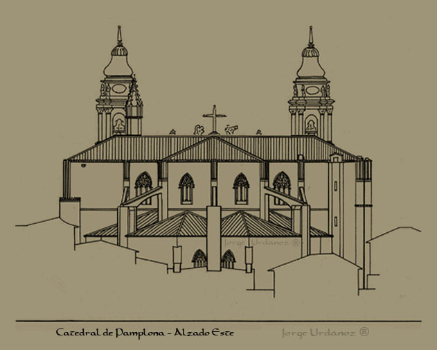 west facade elevation, cathedral of Pamplona